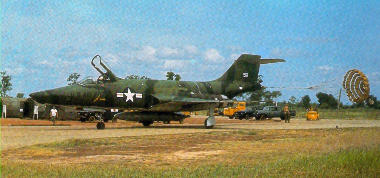 A U.S. Air Force McDonnell RF-101A-30-MC Voodoo (s/n 54-1512) from the 33rd Tactical Group at Tan Son Nhut Air Base, Vietnam, circa 1965.